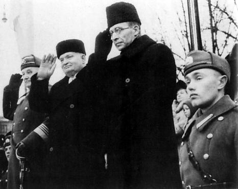 The last time general Johan Laidoner greets the army marching by, February 24, 1940. In the picture Laidoner, president Konstantin Päts and prime minister Jüri Uluots.